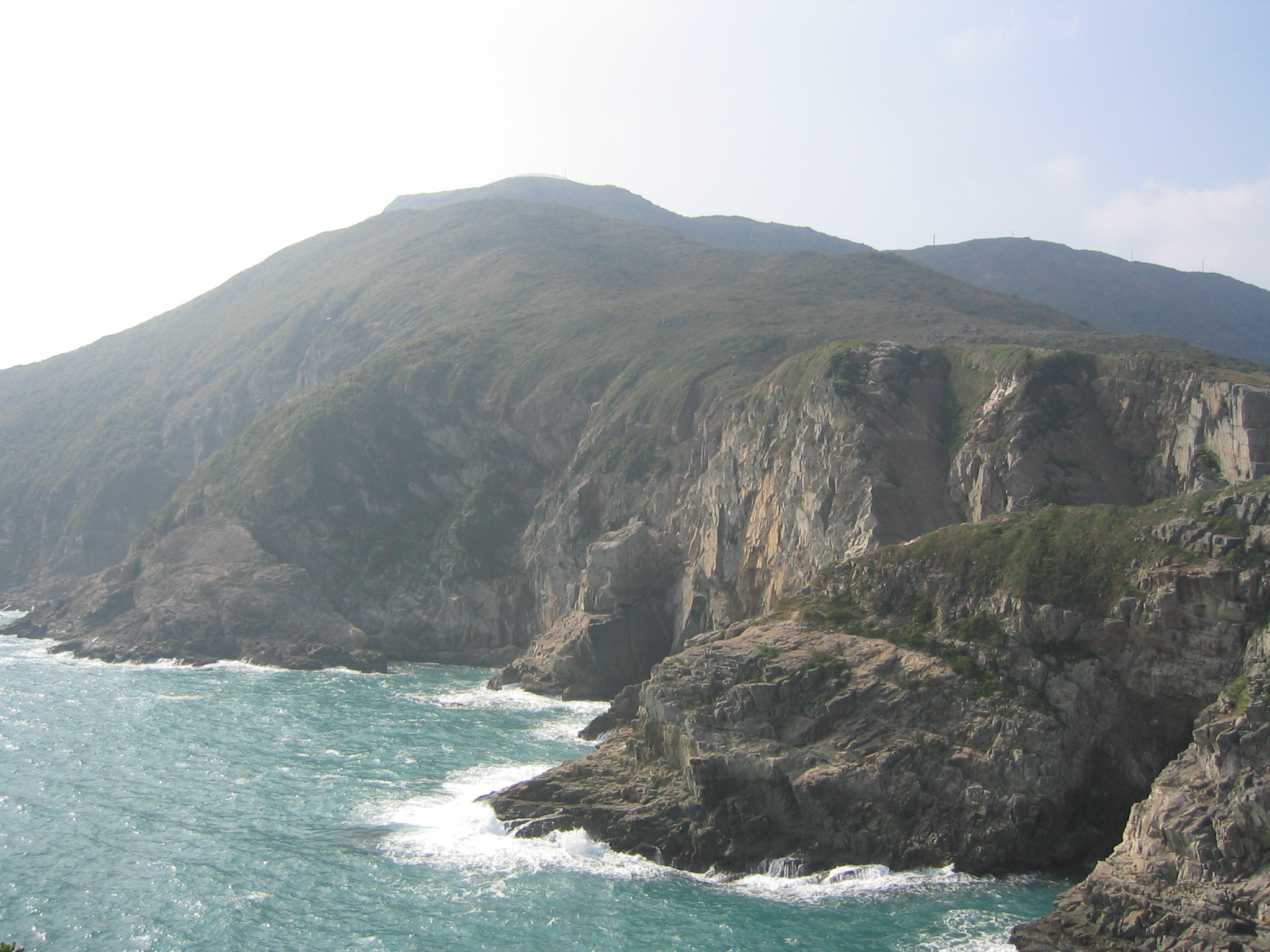 Taken by user:Ngchikit on 26th Dec 2006.